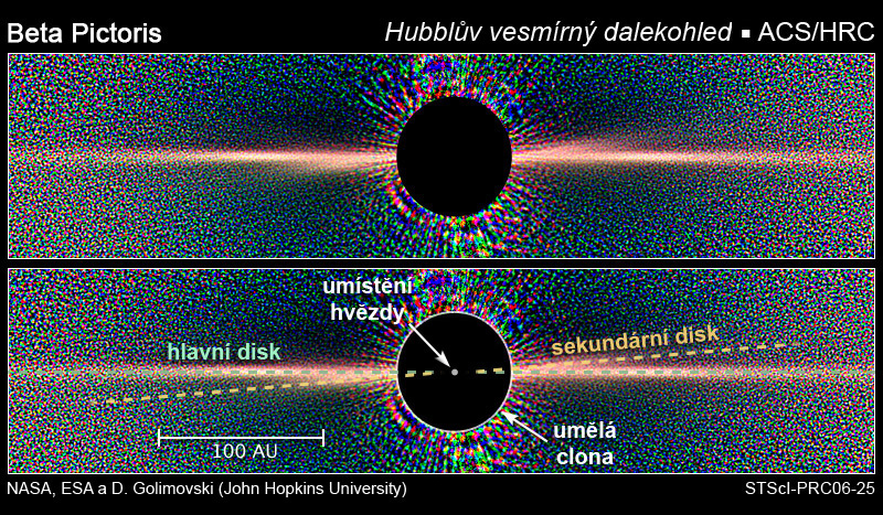 Hubble Space Telescope image of Beta Pictoris' dusk disk.